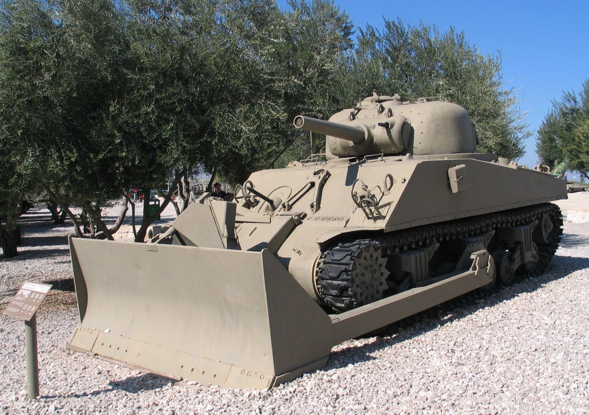 M4(105) Sherman Medium Tank with dozer blade in Yad la-Shiryon Museum, Israel. Labeled as M4A3, but has Continental engine (like M4 and M4A1).